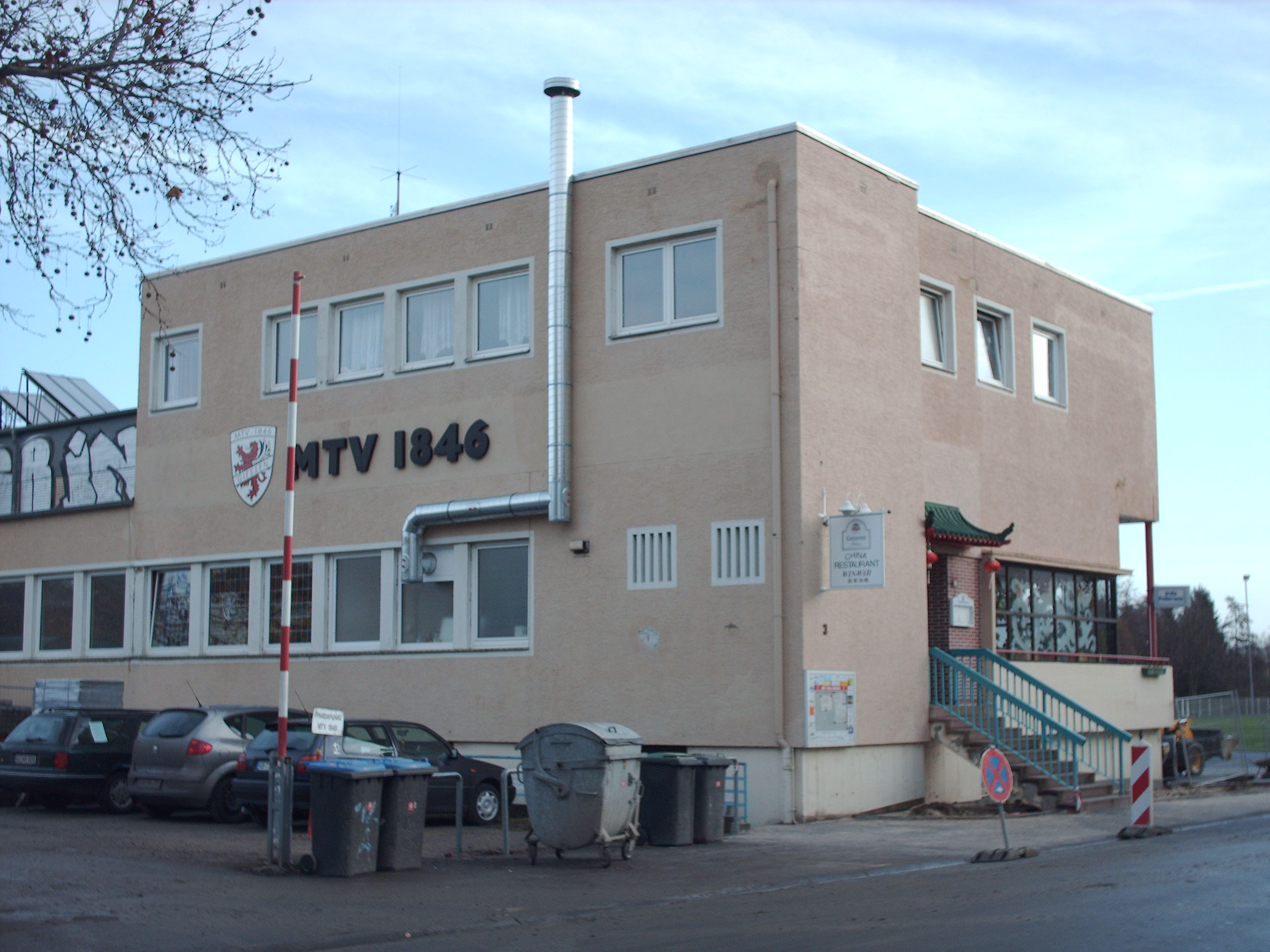 Office of MTV, Gießen, Germany check usage